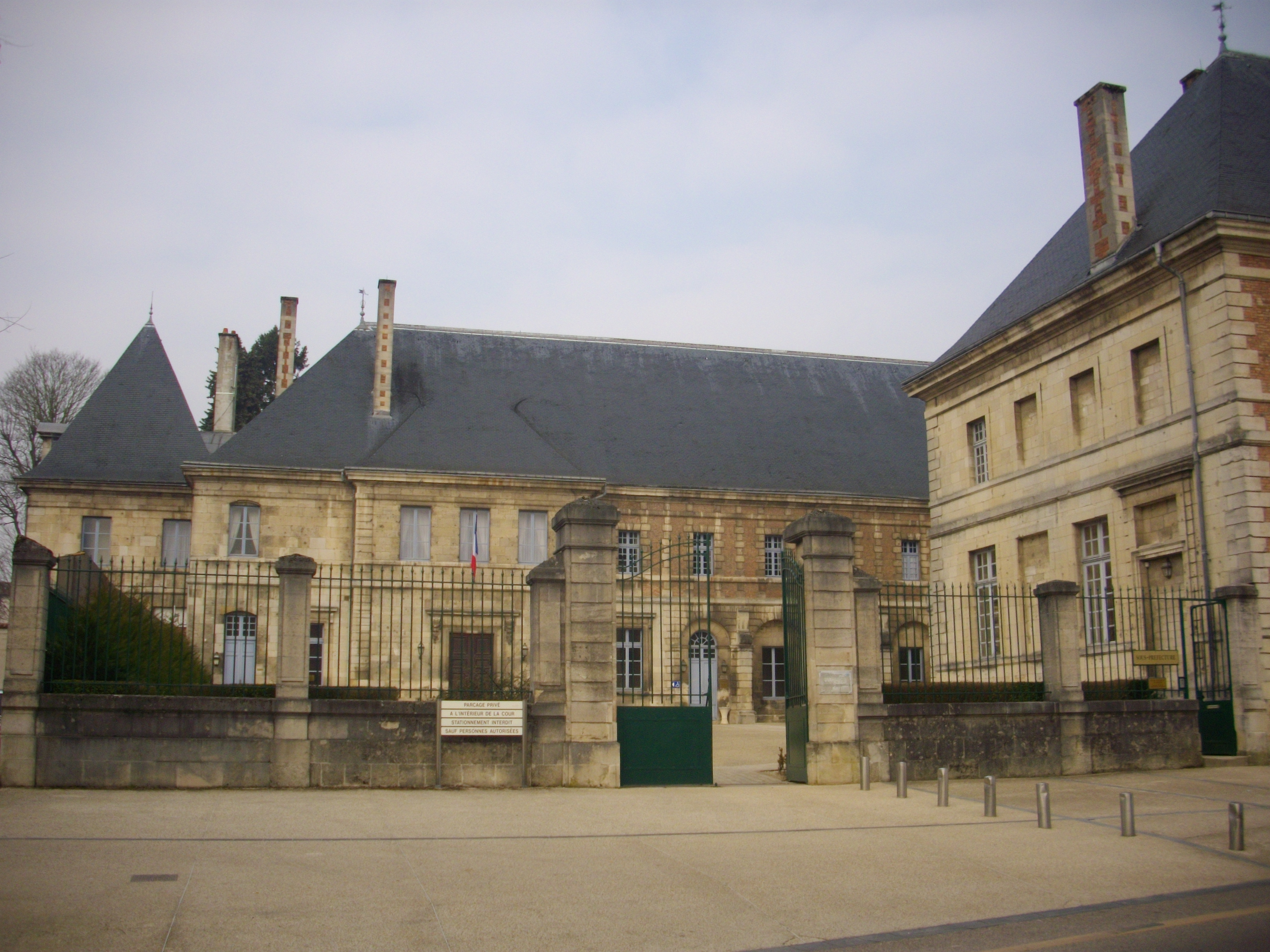 Subprefecture of Verdun (Meuse, France)